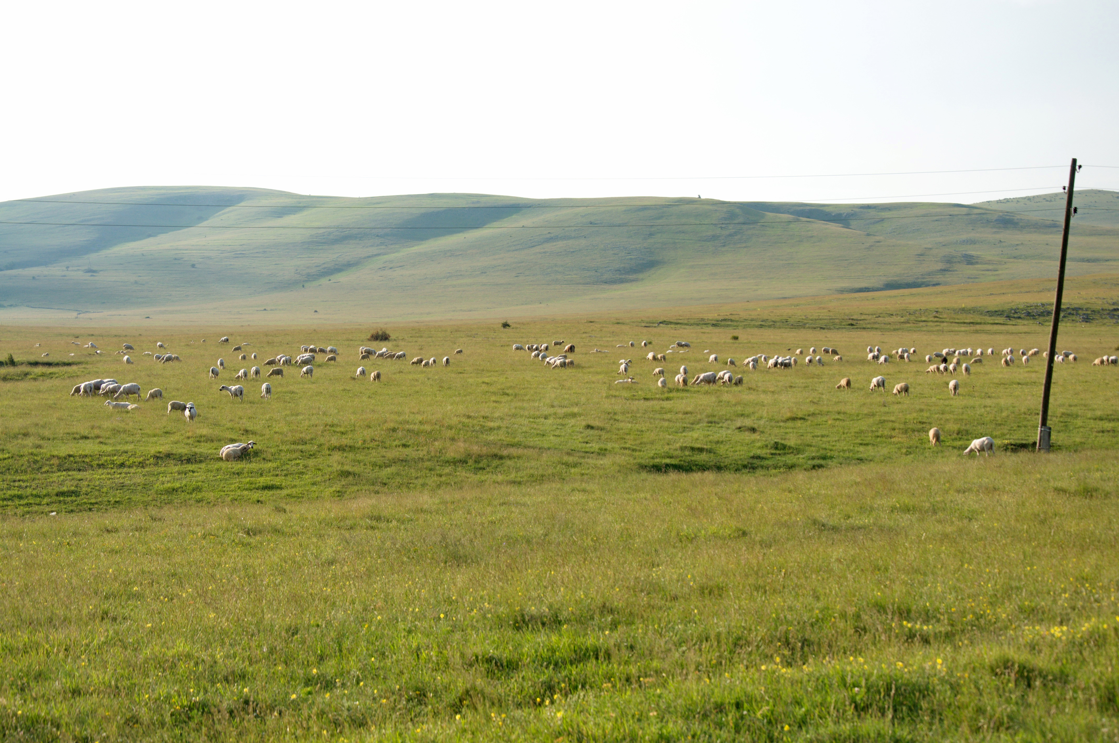 Panoramic scenes of the Pester plateau, karst region in southwestern Serbia. It situated in the area of Raska. The most part of Pešter is located in the municipality of Sjenica. The relief of Pester Plateau is characterized by low, hilly terrain, streams of clean water and vast meadows that are used for grazing sheep and cattle. Pester field is a region of outstanding natural value. A part of Pester is the Uvac River Canyon. In the canyon of the river Uvac nests large colony of eagles, vultures - Gyps fulvus.